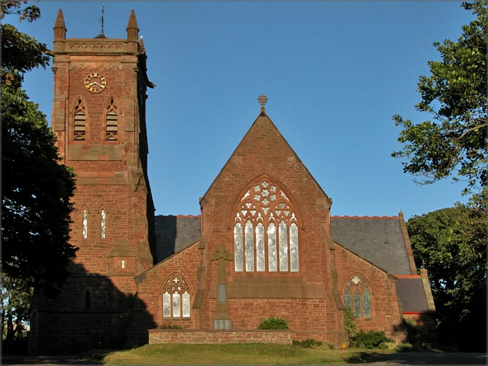 2006 view of Peel Cathedral